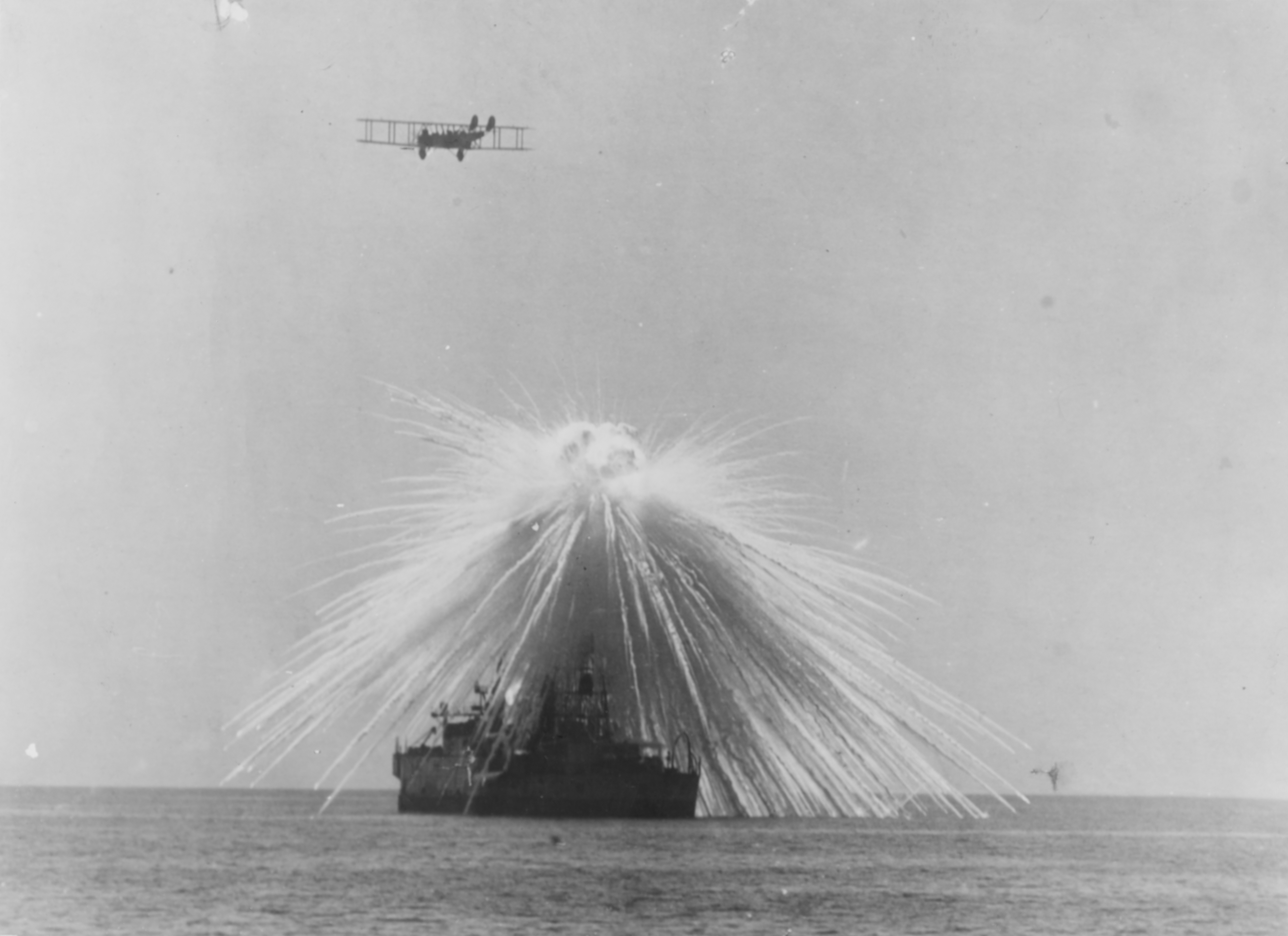 A white phosphorus bomb explodes on a mast top, while the ship in use as a target in Chesapeake Bay, 23 September 1921. An Army Martin twin-engine bomber is flying overhead. U.S. Naval History and Heritage Command Photograph.